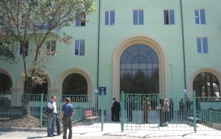 University of Tshkinvali dormitory